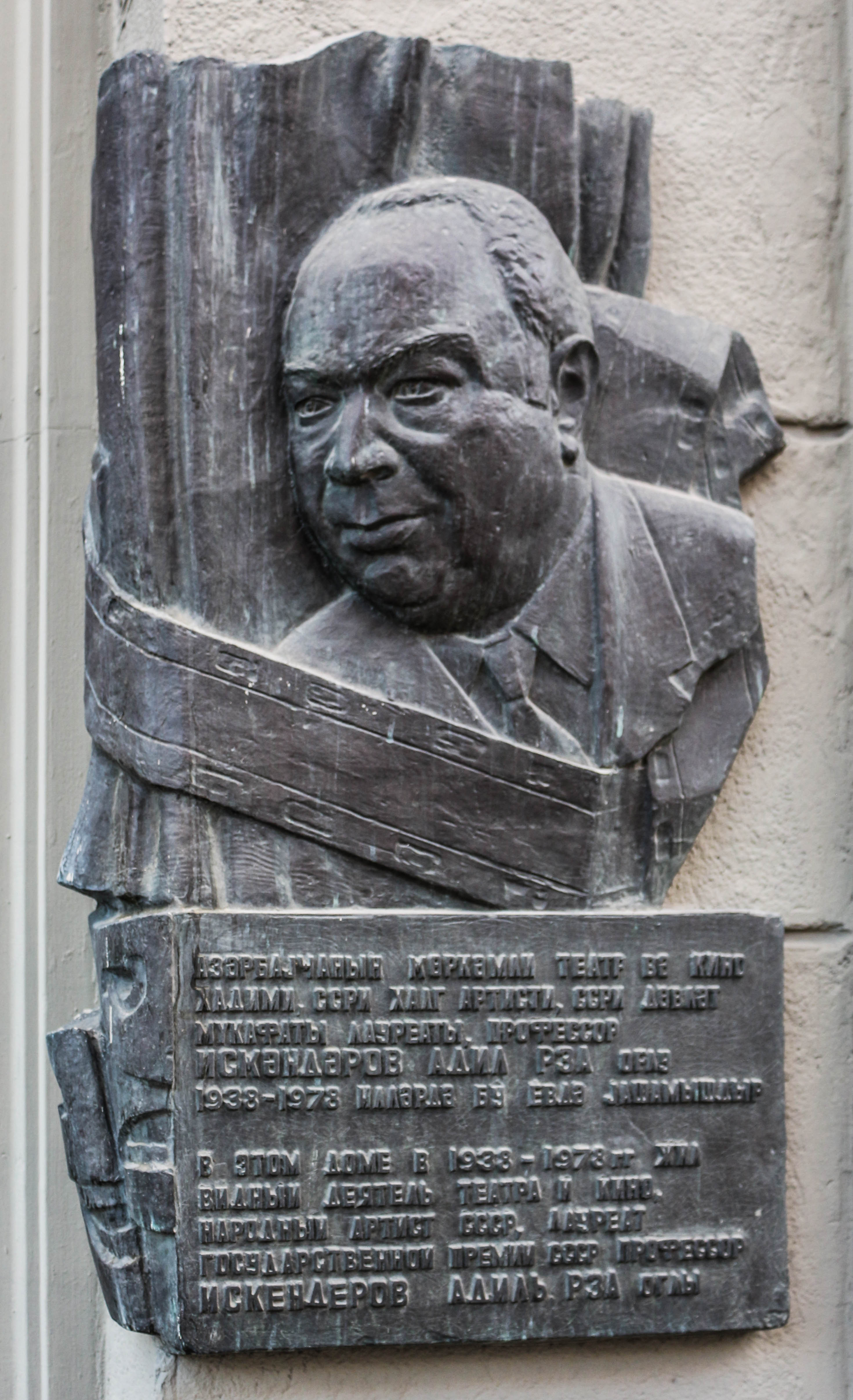 Plaque on building where Azerbaijani theatre director and actor Adil Isgandarov lived in Baku